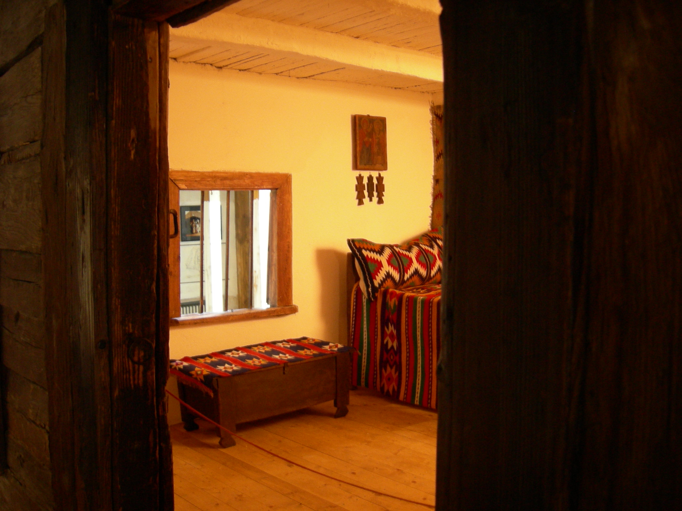 "The house in the house", Museum of the Romanian Peasant, Bucharest, Romania.